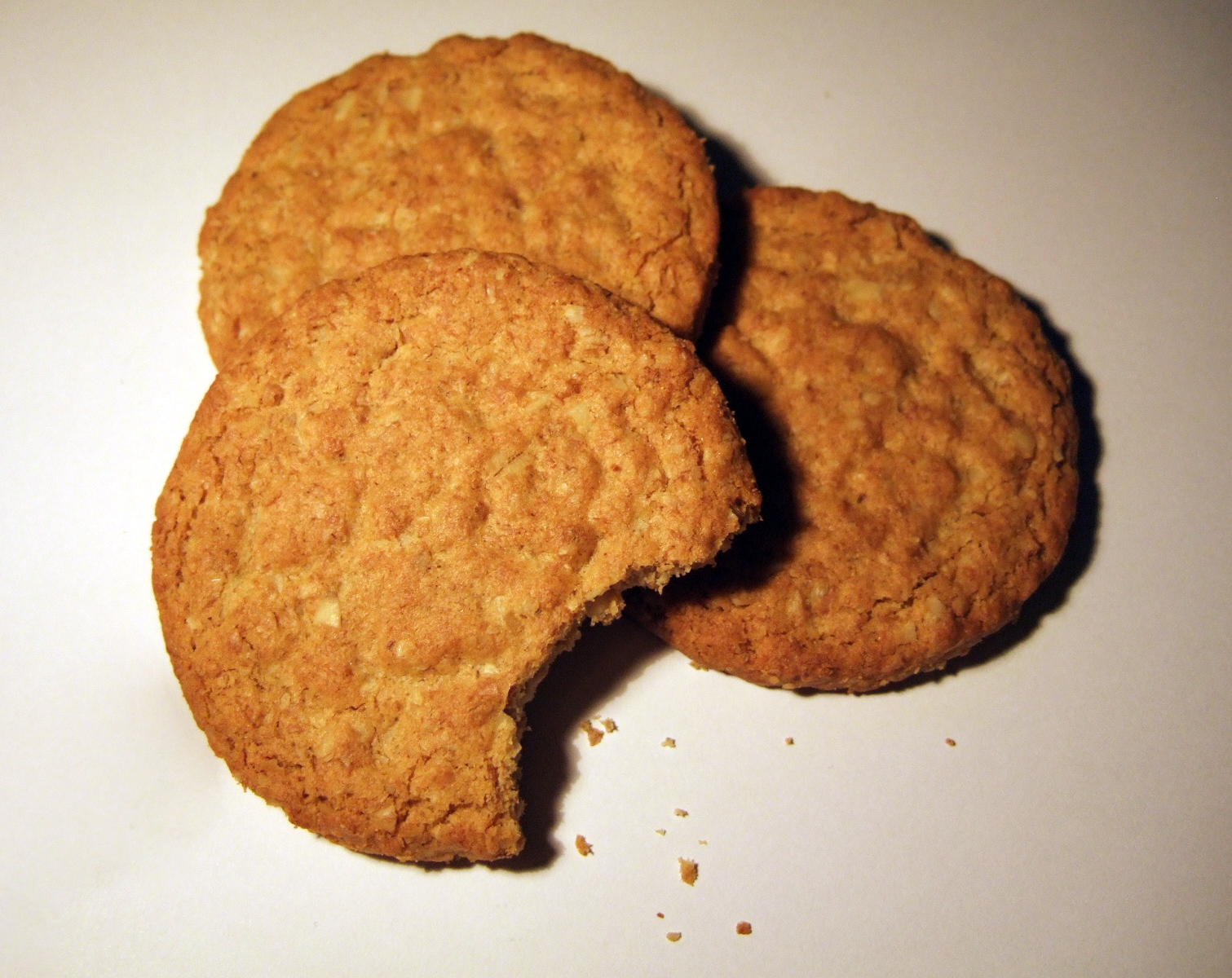 Photo of some HobNobs taken by me. Released into public domain.